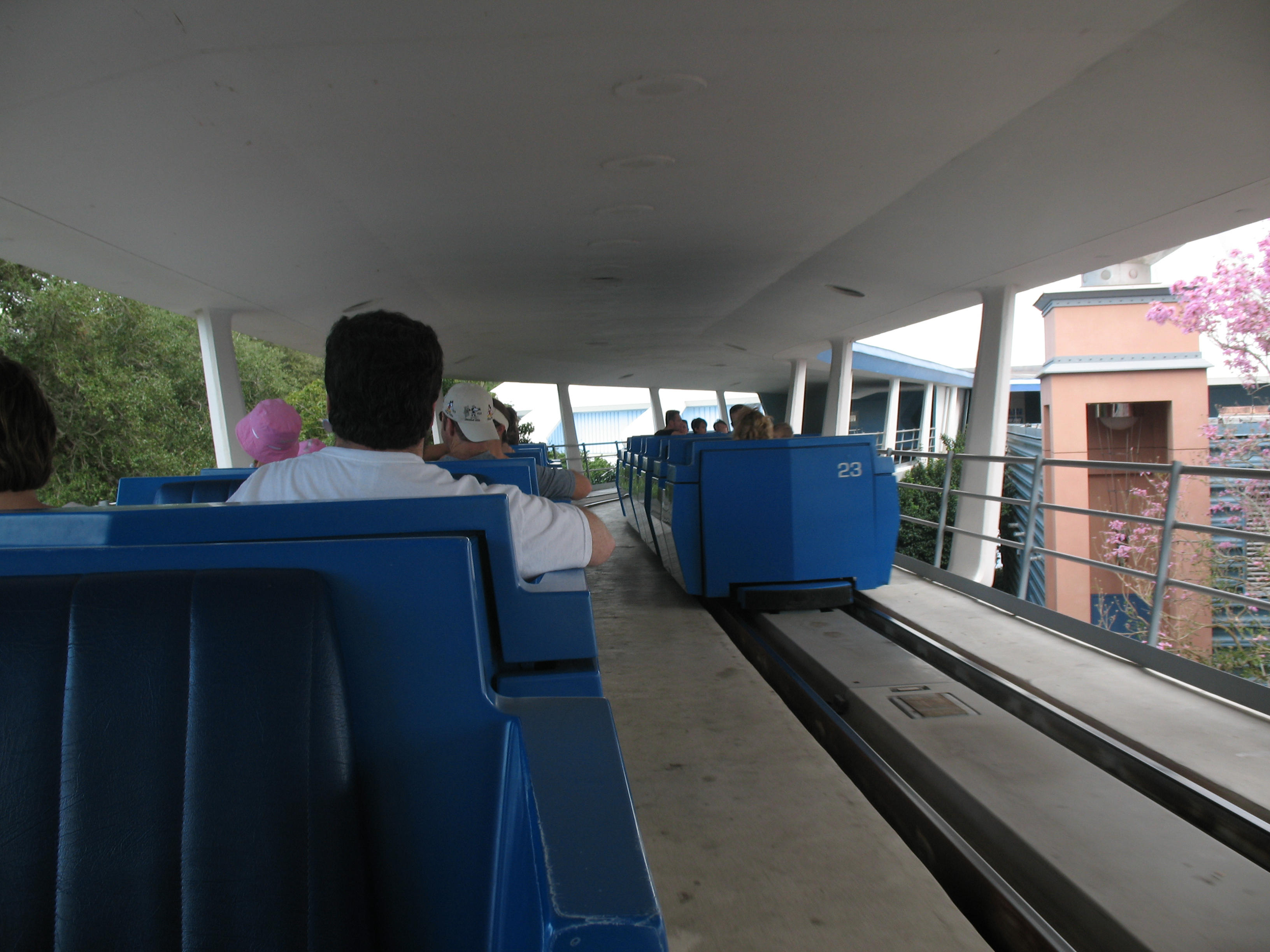 The Tomorrowland Transit Authority (PeopleMover) ride at Disney's Magic Kingdom